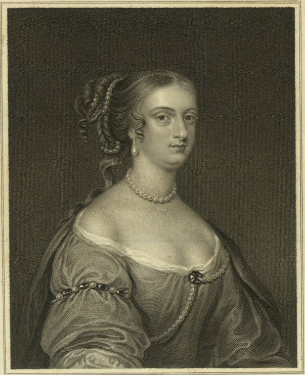 Portrait of Rachel Wriothesley, Lady Russell. Engaved by John Cochran after a portrait by Samuel Cooper.